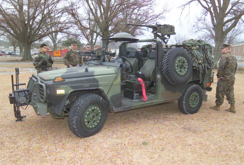 United States Marine Corps Interim Fast Attack Vehicle (IFAV).